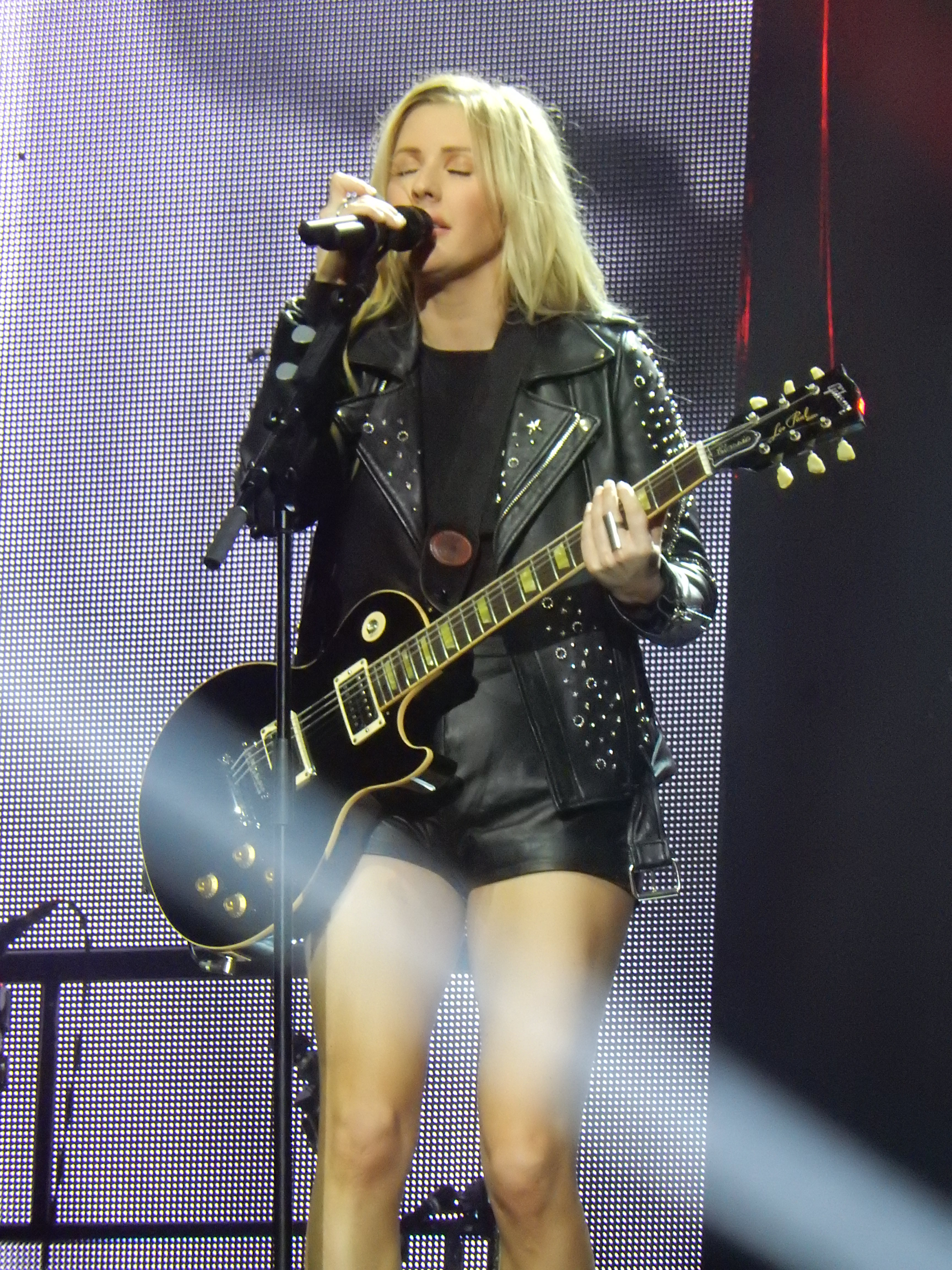 Ellie Goulding, O2 Arena, London